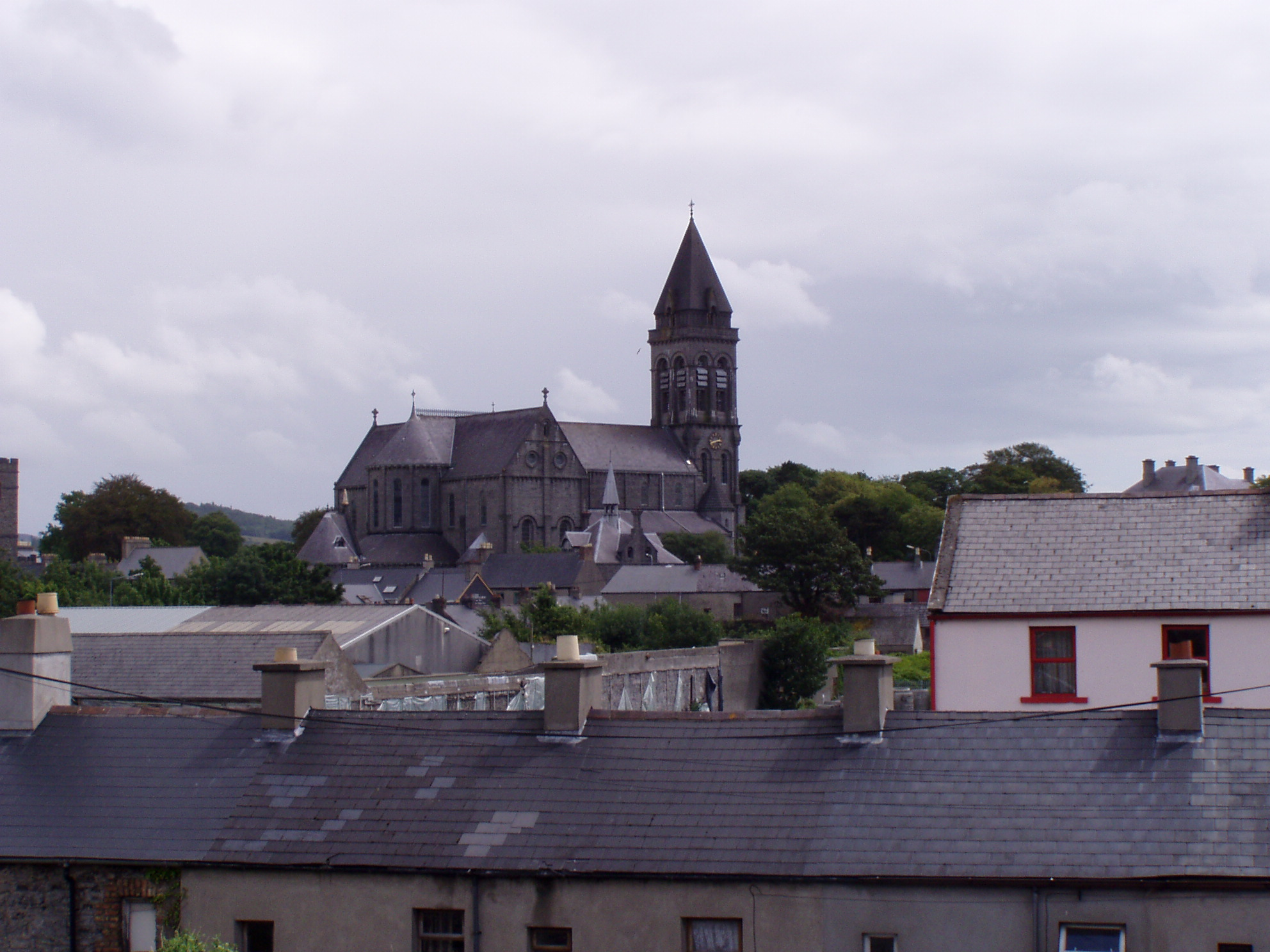 Town of Sligo in the Ireland. Church